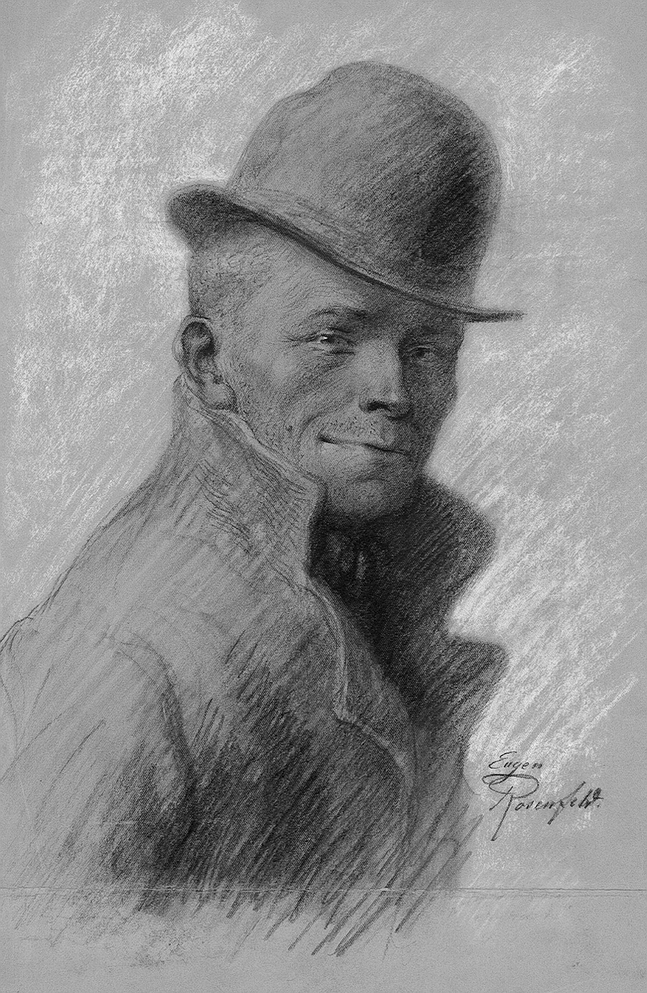 Karl Valentin 41.7 x 27.5 cm chalk on grey-blue wove paper signed l.r.Eugen Rosenfeld